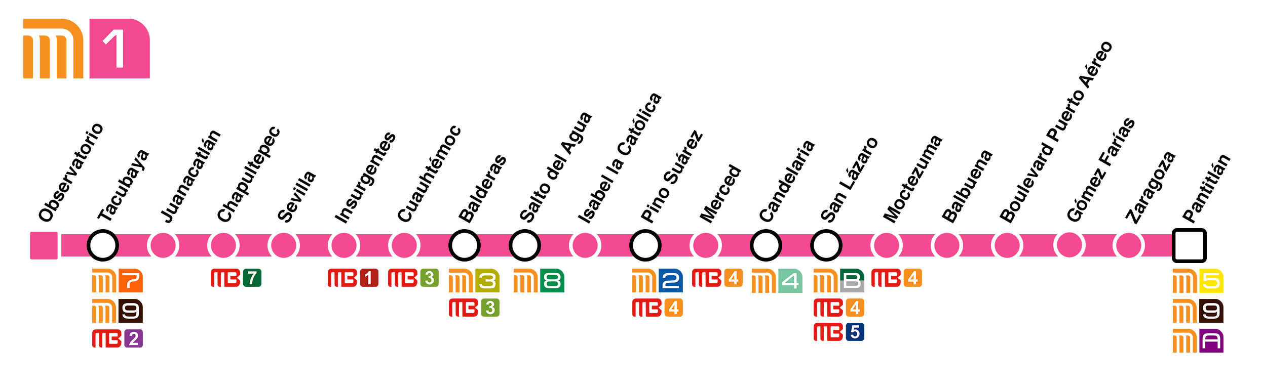 Mexico City Metro Line 1 scheme, 2018